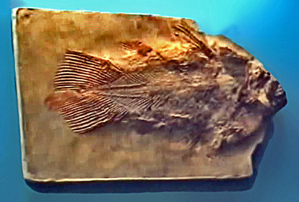 Undina acutidens, at the Naturhistorisches Museum, Wien